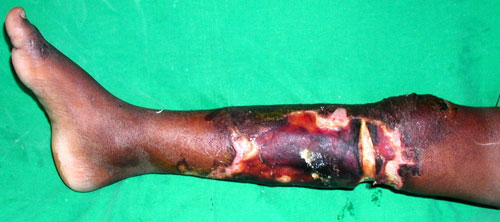 Necrosis after a burn